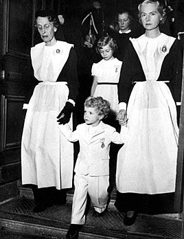 Crown Prince Carl Gustaf of Sweden, and behind him his sisters Christina and Birgitta, at the funeral of their great grandfather King Gustaf V funeral in november 1950. He is dressed in a bright suit and holding the hands of Queen Louise (left) and his mother Princess Sibylla.